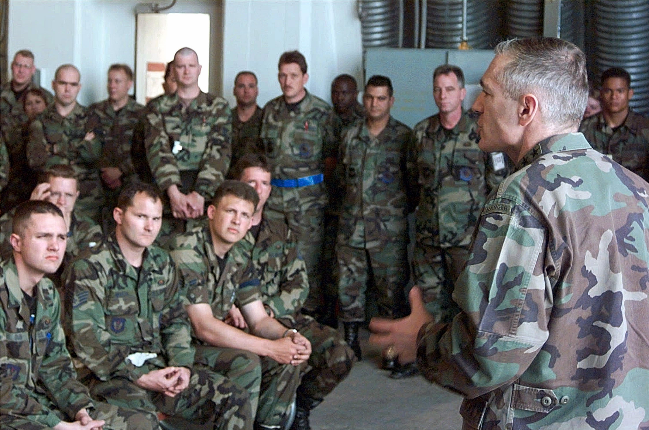 Wesley Clark, Supreme Allied Commander of Europe, meets with members of the 510th Fighter Squadron and the 555th Fighter Squadron who are deployed to Aviano Air Base, Italy, on May 9, 1999, in support of NATO Operation Allied Force.